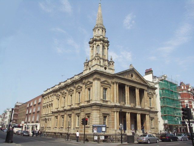 Hinde Street Methodist Church, Marylebone, London W1, seen from the southwest